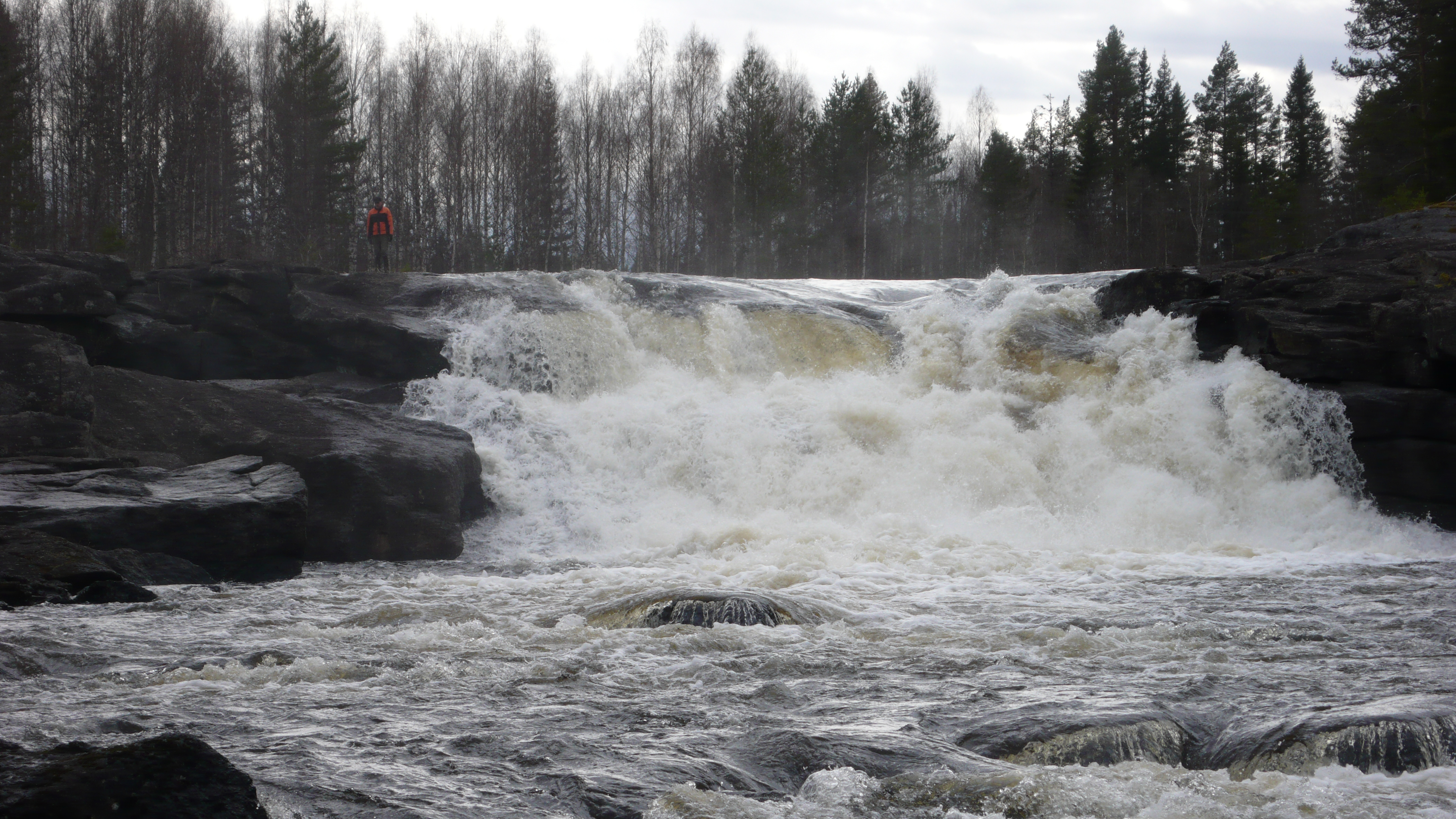 Vängelälven